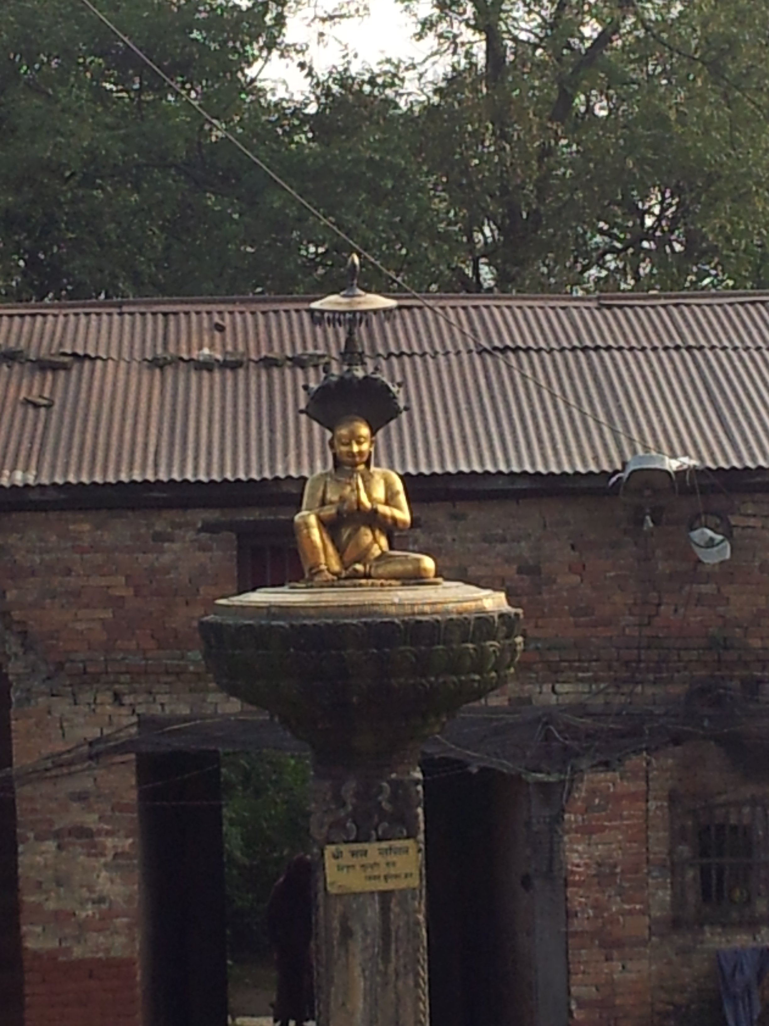 Statue of Queen Tripurasundari at Tripureshowr Temple in Kathmandu